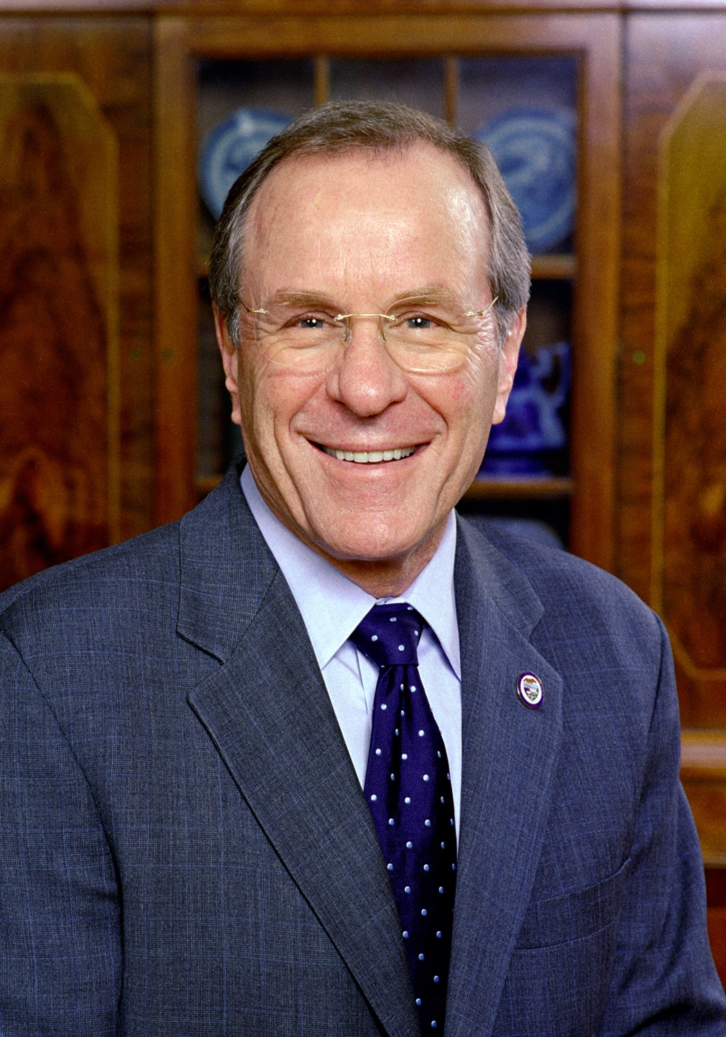 Official photo of Oregon Governor Ted Kulongoski, received from Governor's office March 2007